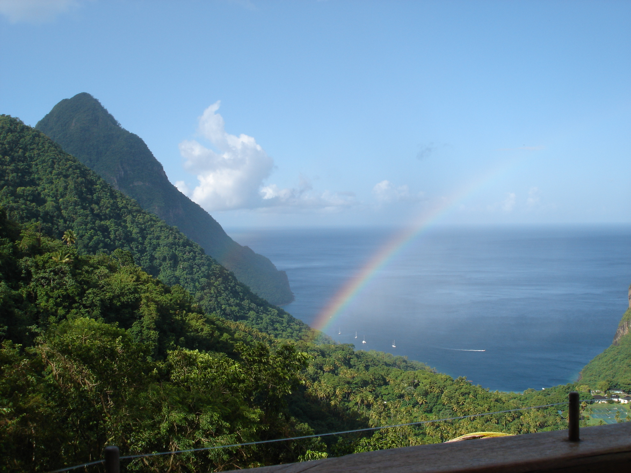 Gros Piton, St. Lucia, seen from the Ladera Hotel restaurant